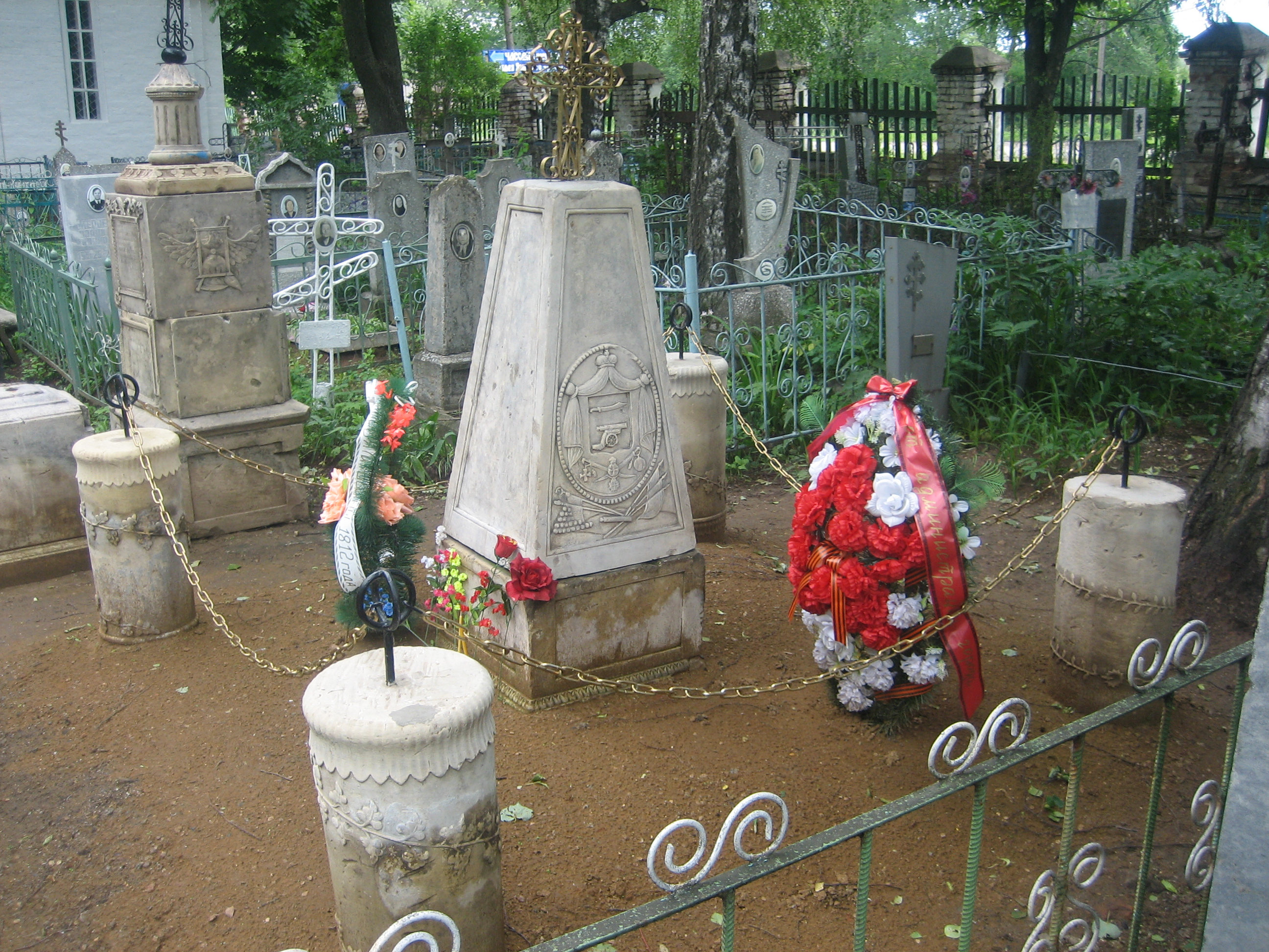 The monument for the Patriotic War of 1812 heros in Voznesenskoye cemetery in Yaransk, Russia